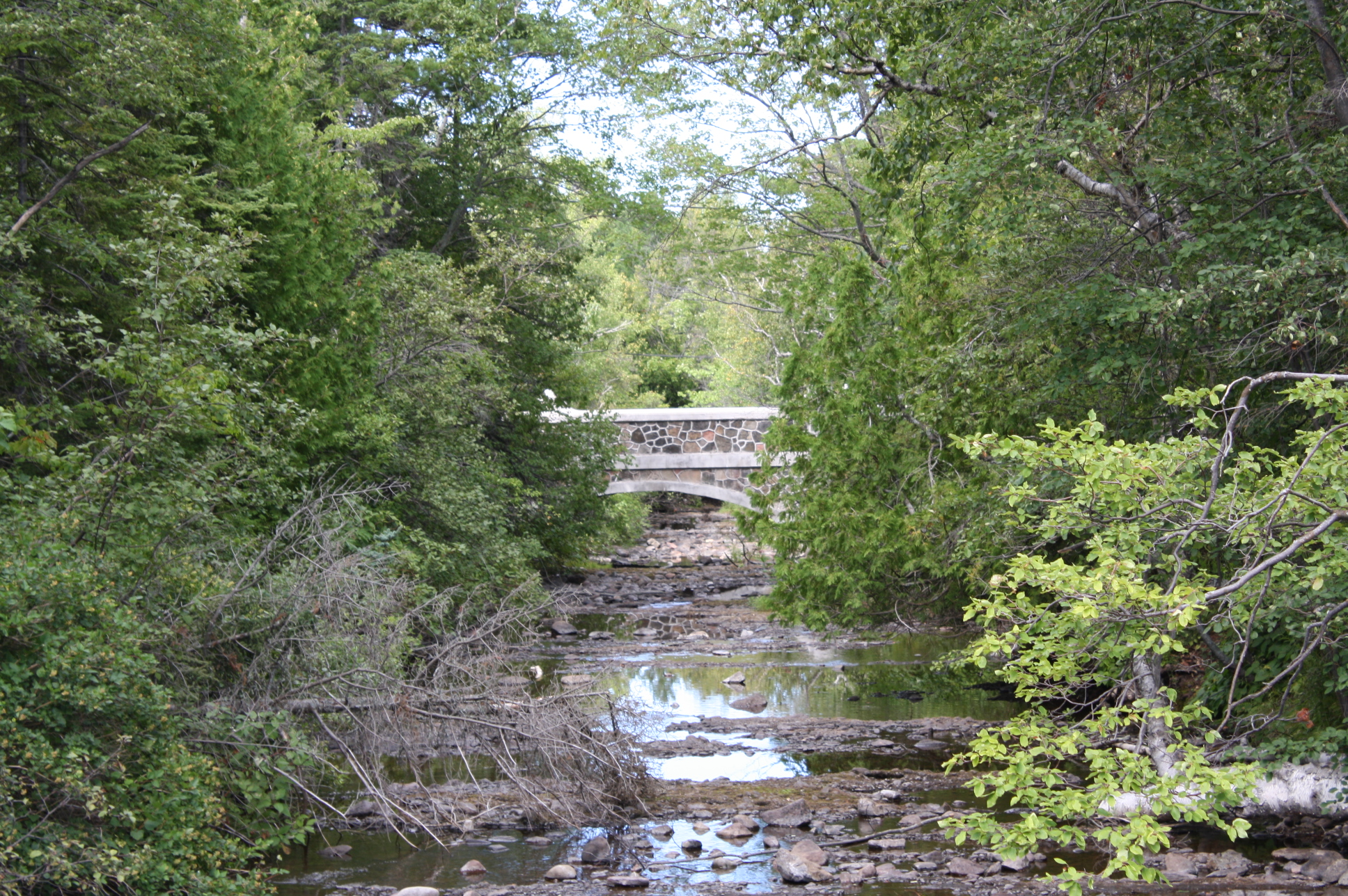 Fanny Hooe Creek Bridge of US 41, in upper in Michigan. Looking at the side view of the bridge — down the Fanny Hooe Creek from Fort Wilkins Historic State Park.